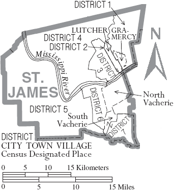 Map of St. James Parish, Louisiana, United States with municipal and district boundaries